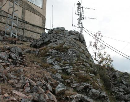 Torre del castillo de casas de miravete